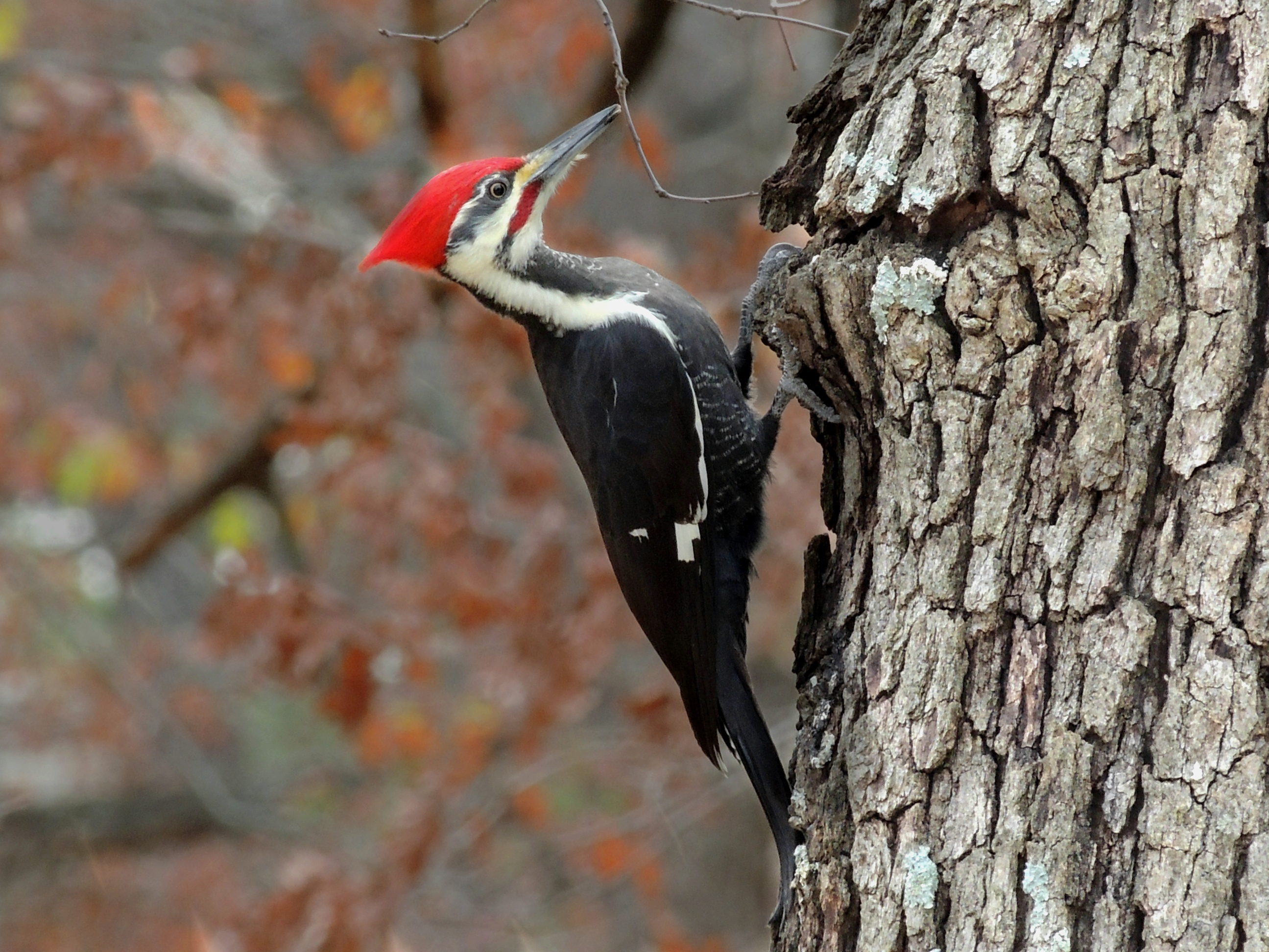 A male Pileated woodpecker foraging on a tree